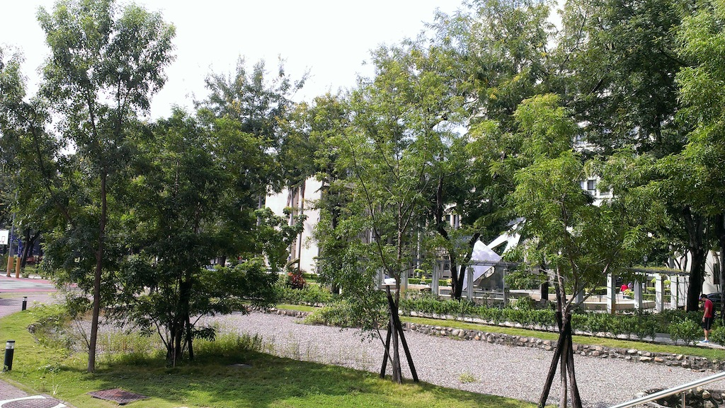 A shot of the schoolyard at Kaohsiung's ASHS school